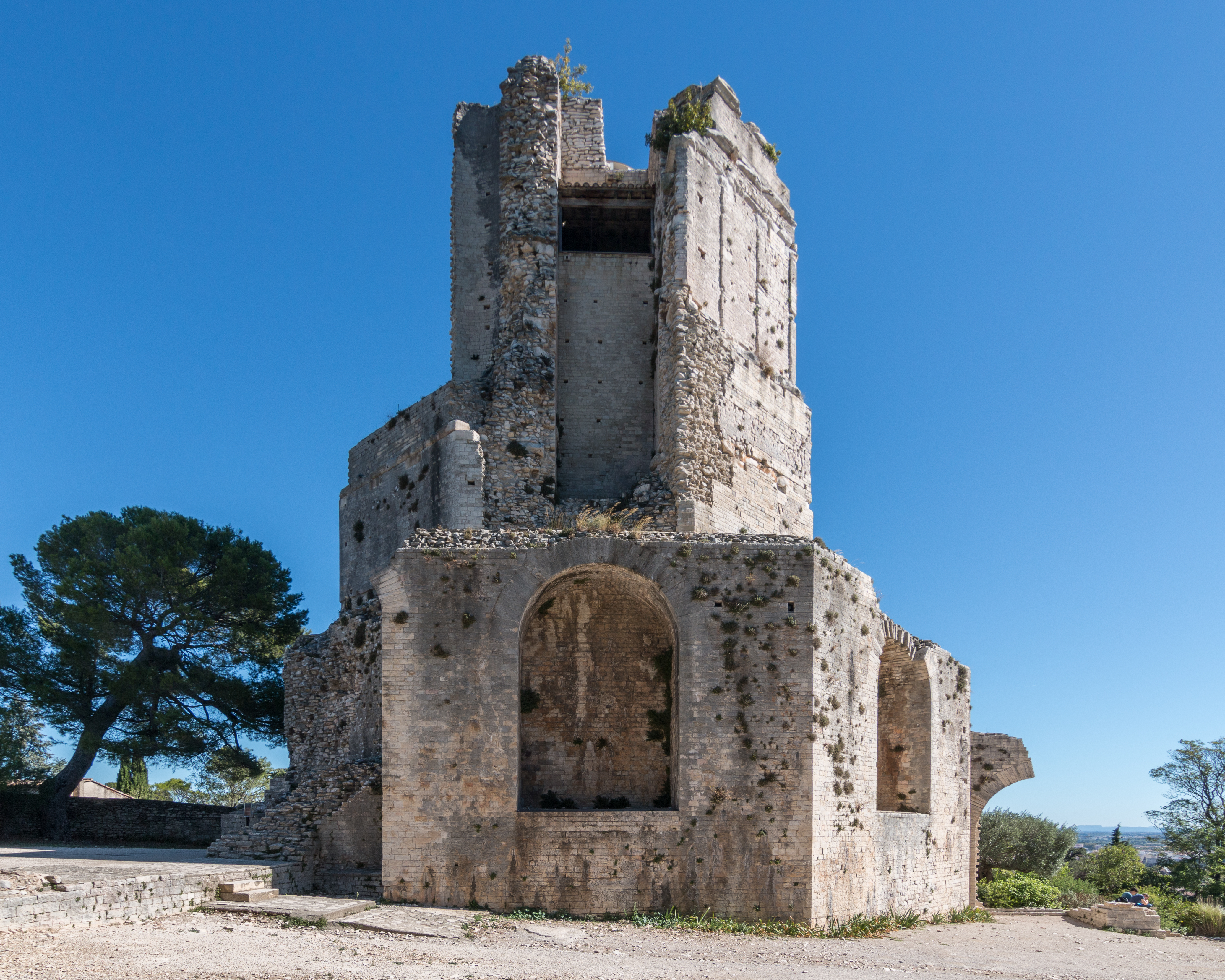 The Tour Magne in Nîmes